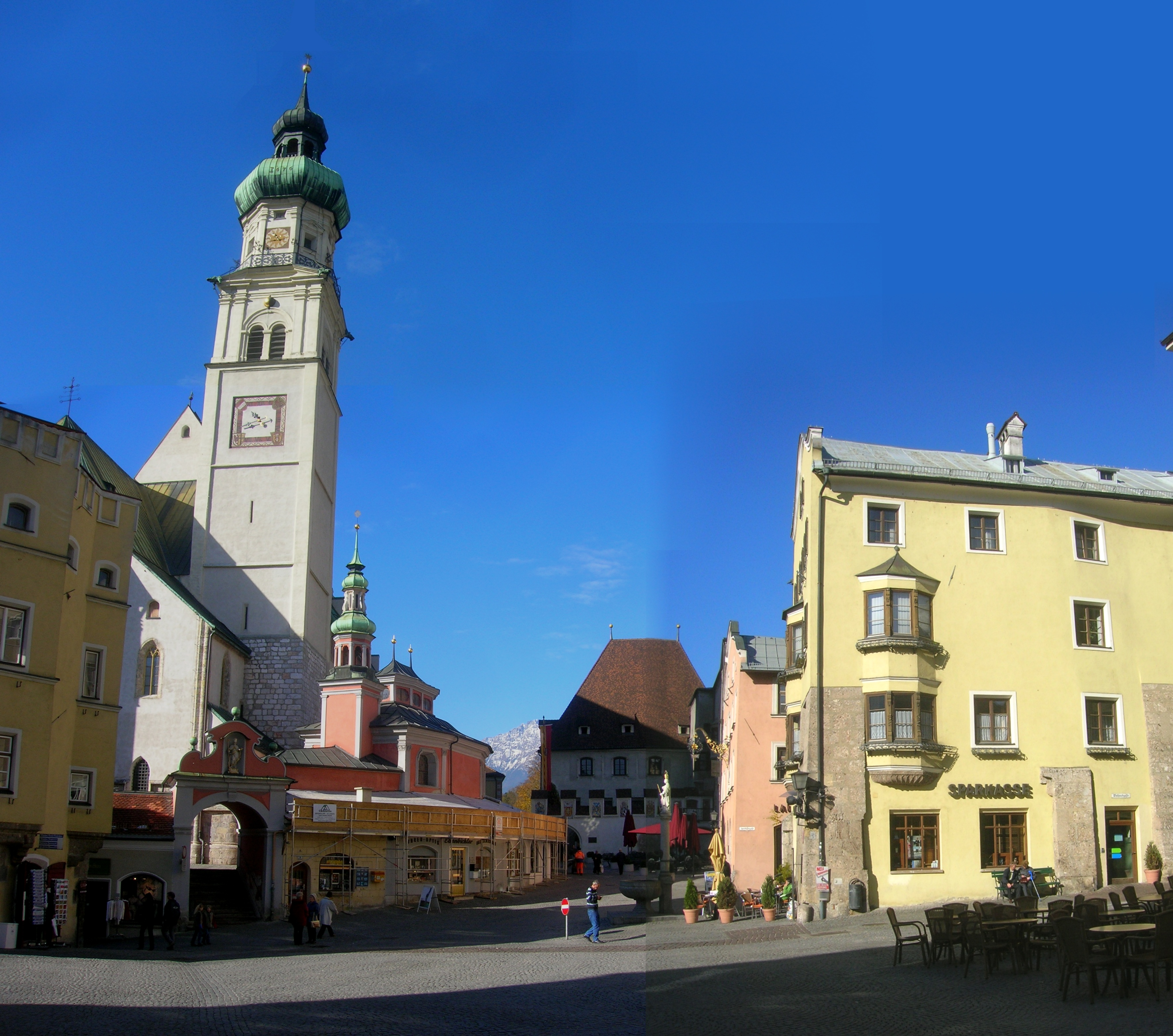 Obere Stadtplatz, the main square in the Old Town of Hall in Tirol